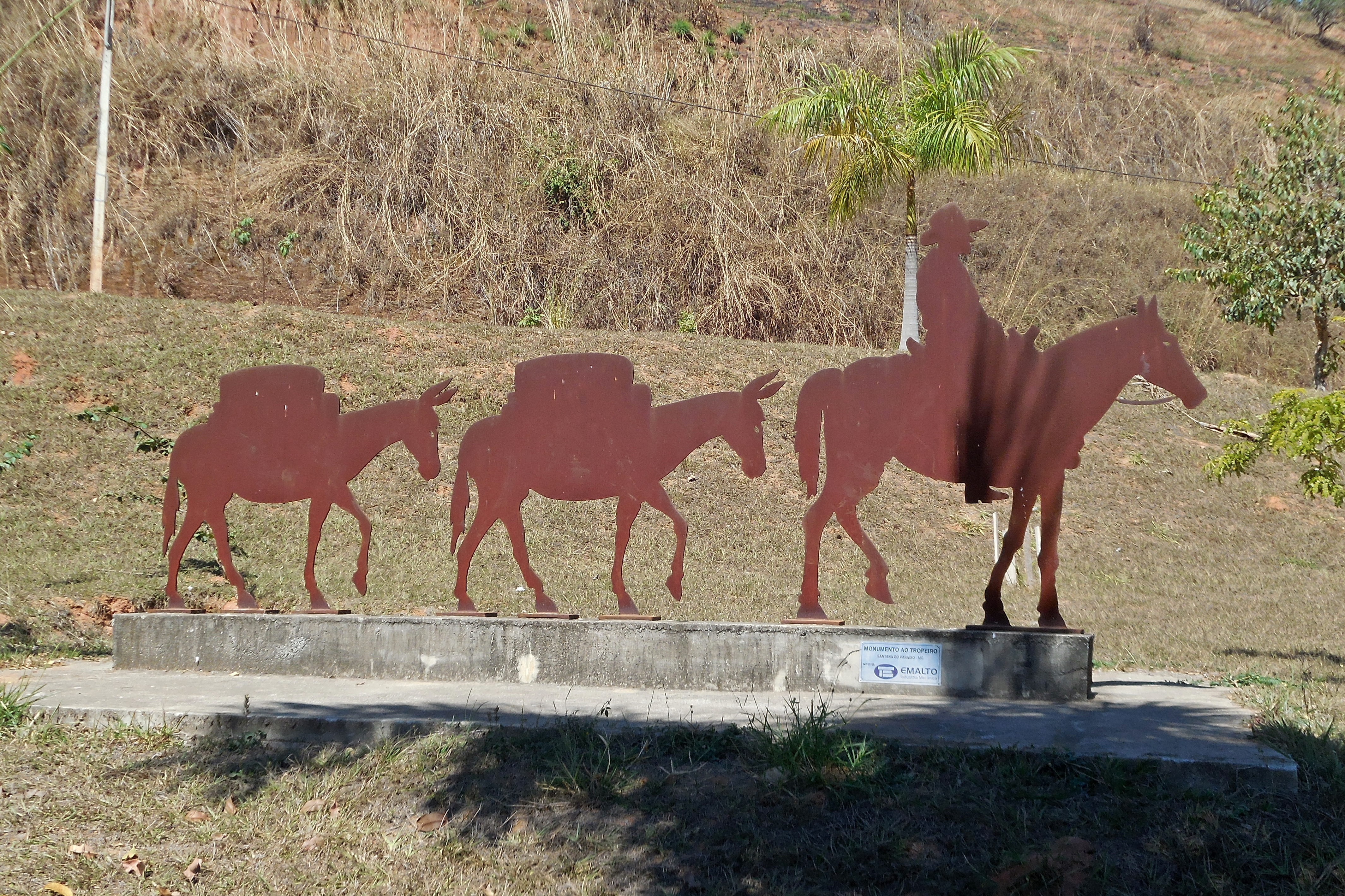 Monumento ao Tropeiro (Monument to the tropeiro) in Santana do Paraíso, Minas Gerais, Brazil.